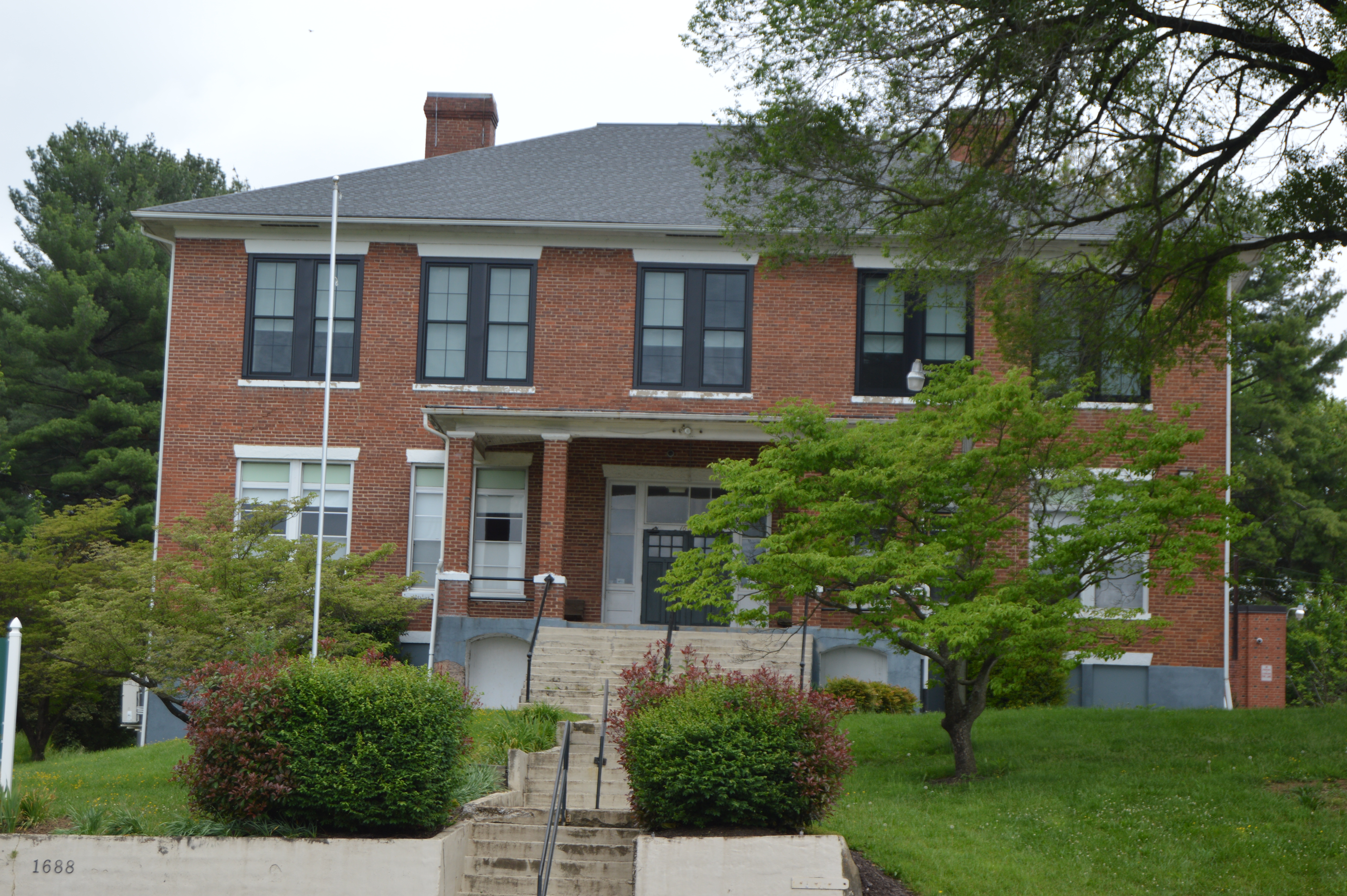 Front of Redeemer Classical School (formerly Keezletown Elementary School), located at the intersection of Mountain Valley and Indian Trail Roads at Keezletown in Rockingham County, Virginia, United States. It was built in 1917.